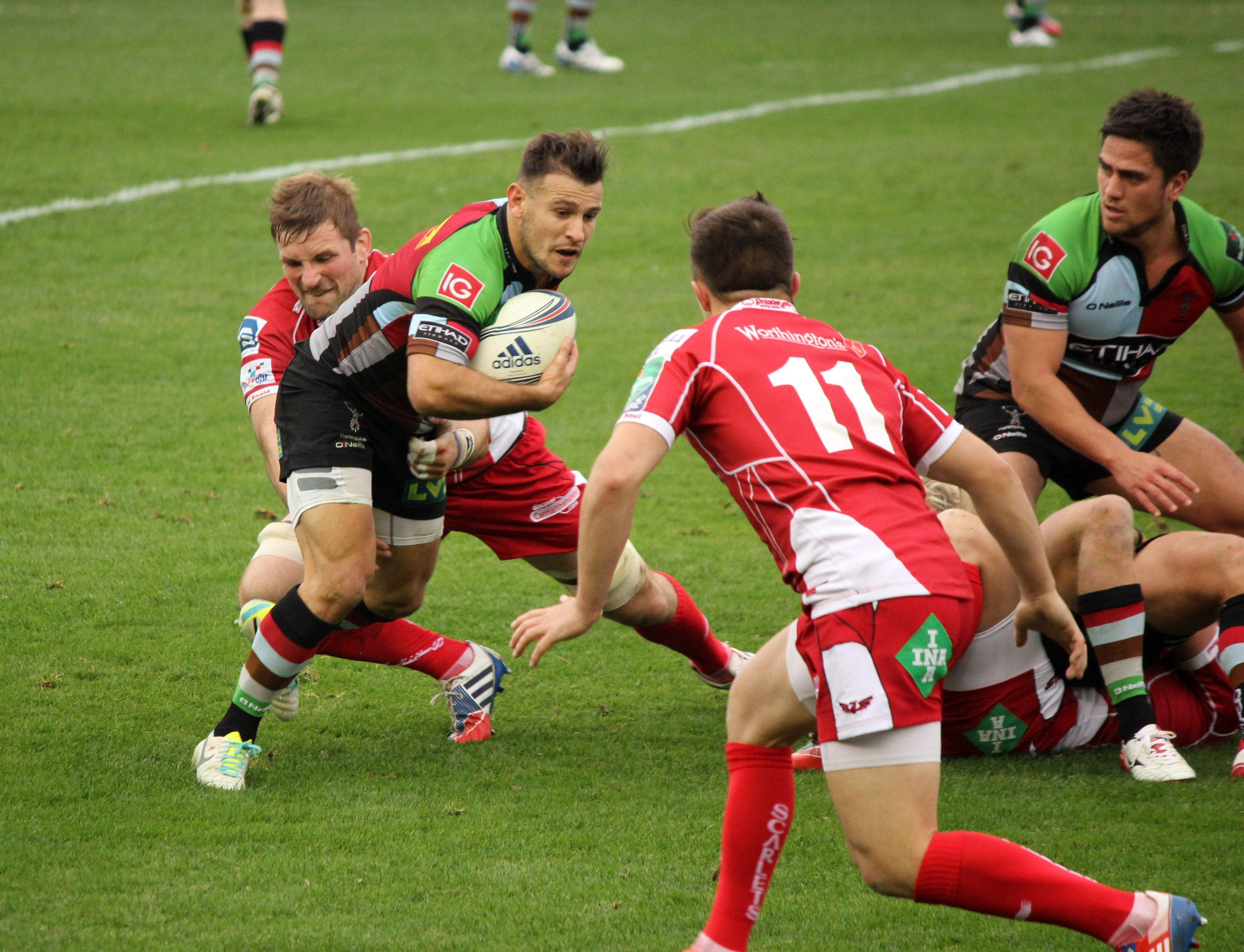 Danny Care Heineken Cup 2013-14, 12 October 2013, Twickenham Stoop. Match between: Harlequins - Scarlets